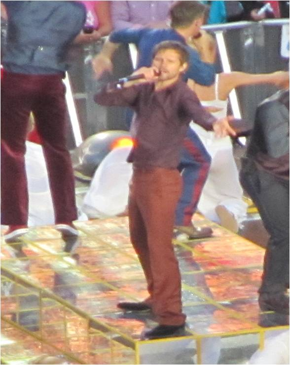 Jason Orange performing in a Take That Concert in Dublin June 2011